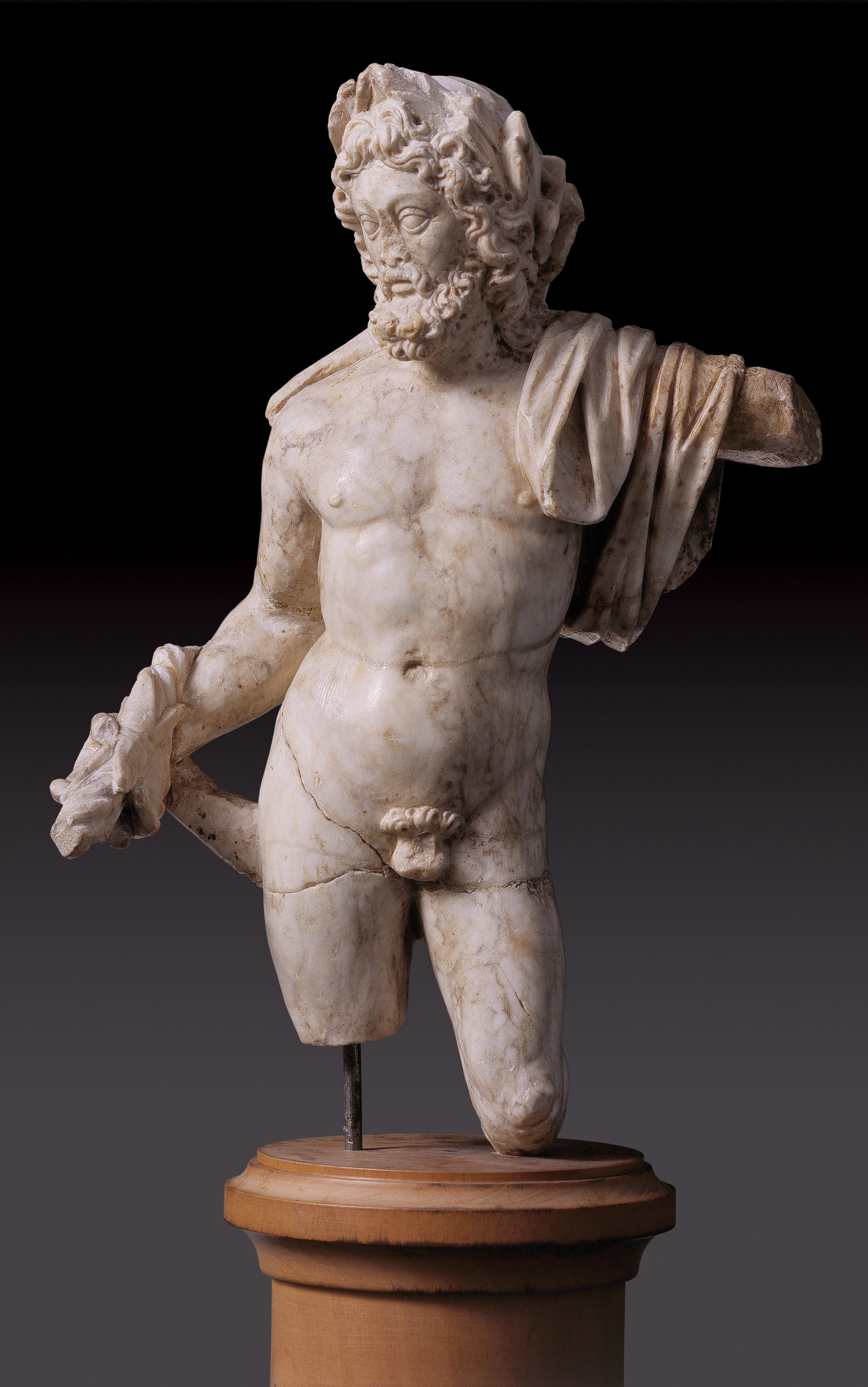 Hans Michel, Basle, ca. 1582; Alabaster; height 17.2 cm; Inv. 1906.28.